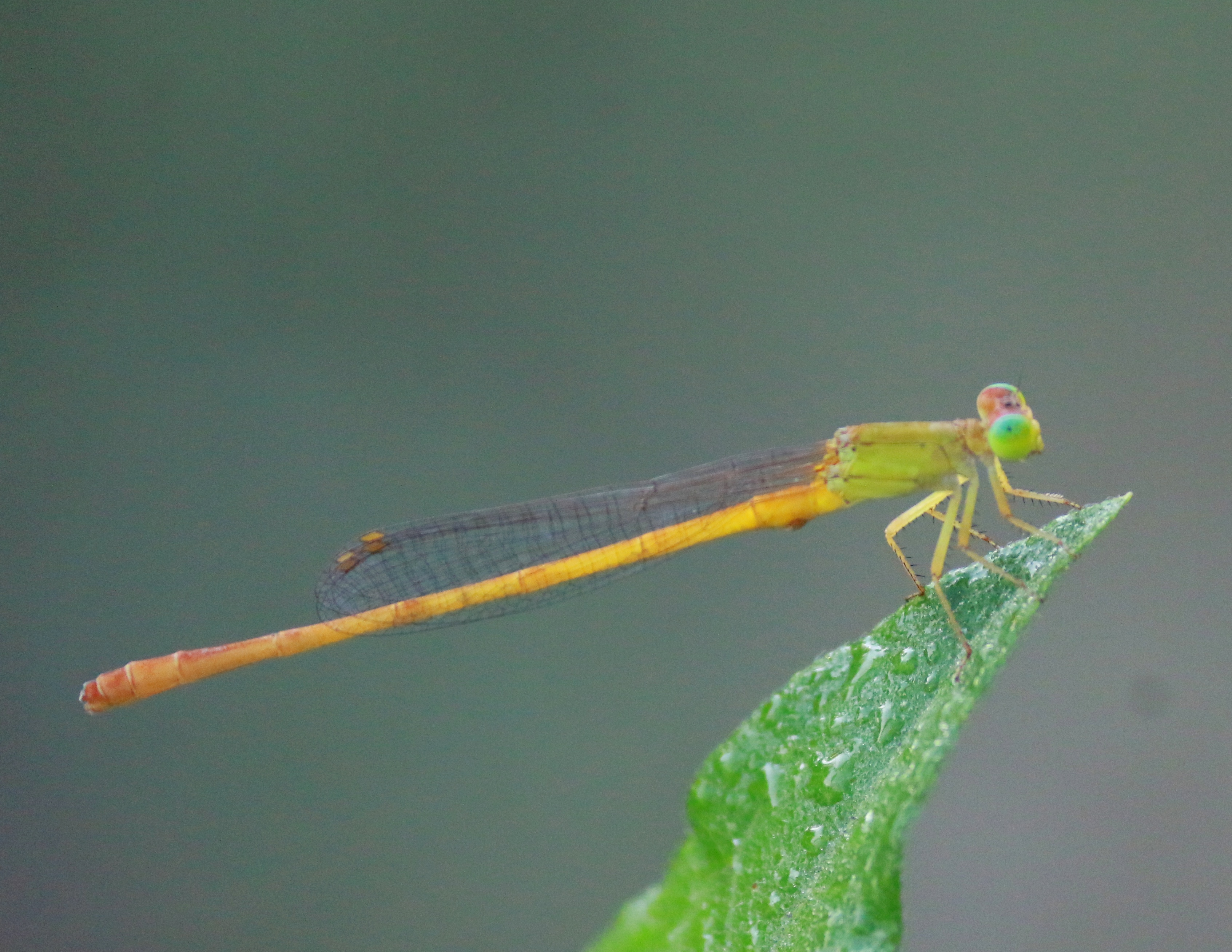 Ceriagrion coromandelianum,Coromandel Marsh Dart